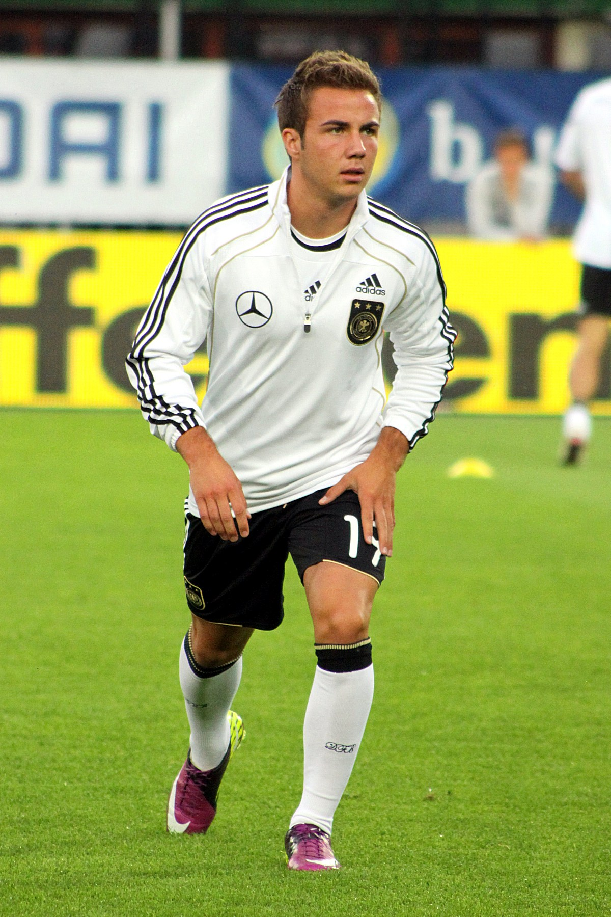 Mario Götze (Borussia Dortmund), german national football team